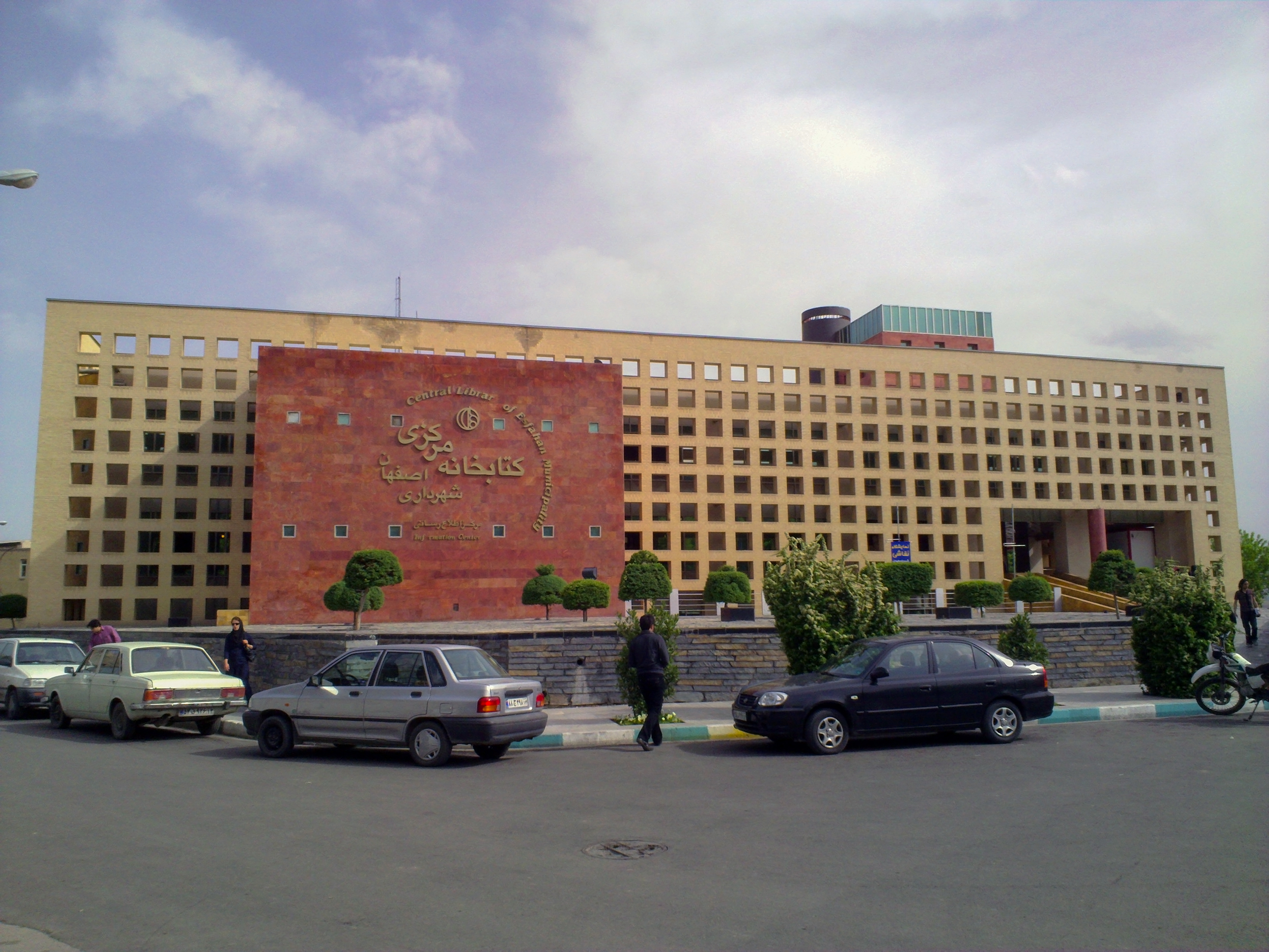 Isfahan historically also rendered in English as Ispahan, Sepahan, Esfahan or Hispahan, is the capital of Isfahan Province in Iran, located about 340 kilometres (211 miles) south of Tehran.